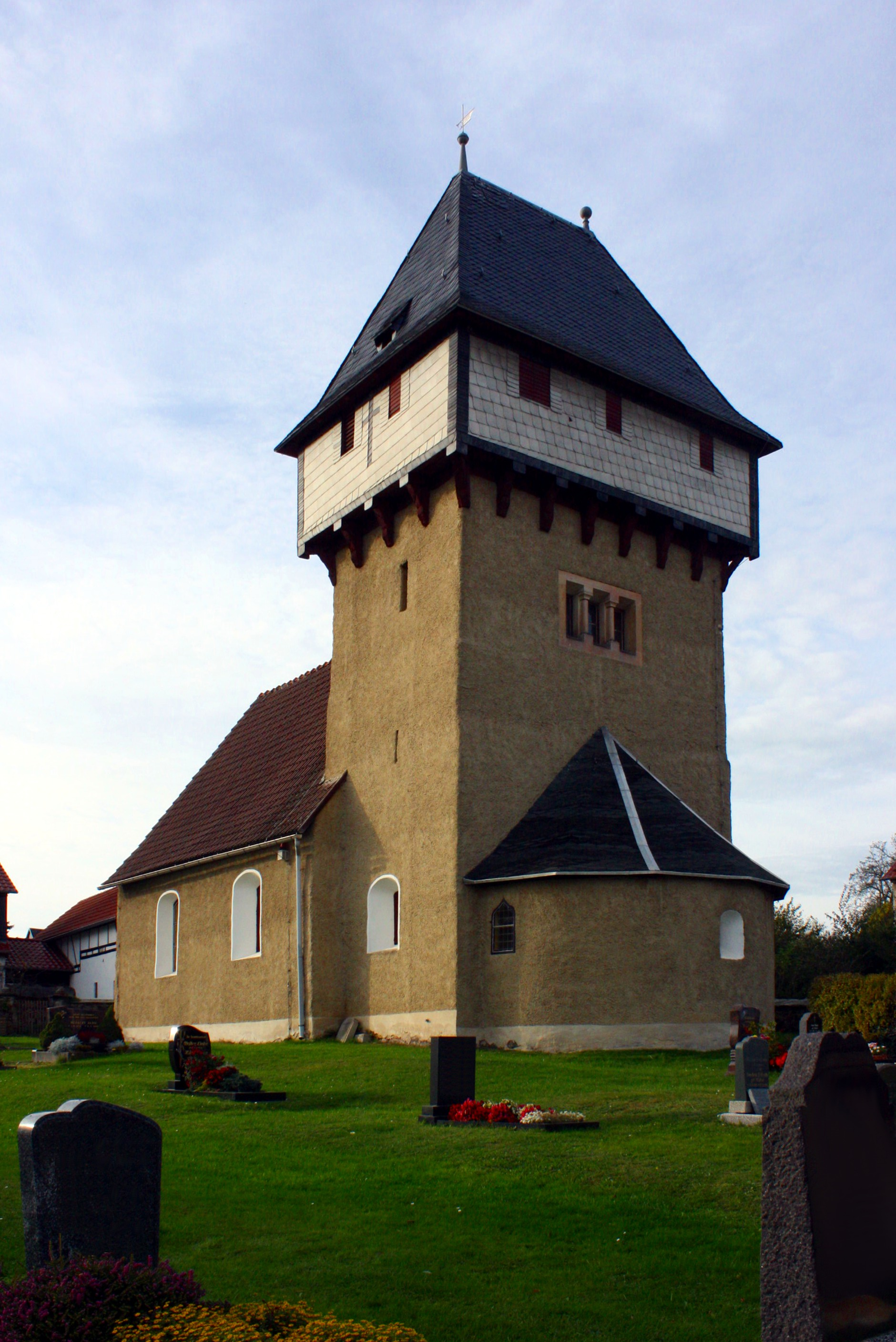 Church in Weida-Schüptitz near Gera/Thuringia